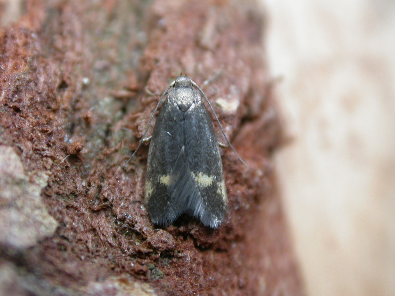 Hellerup (Denmark), June 2003